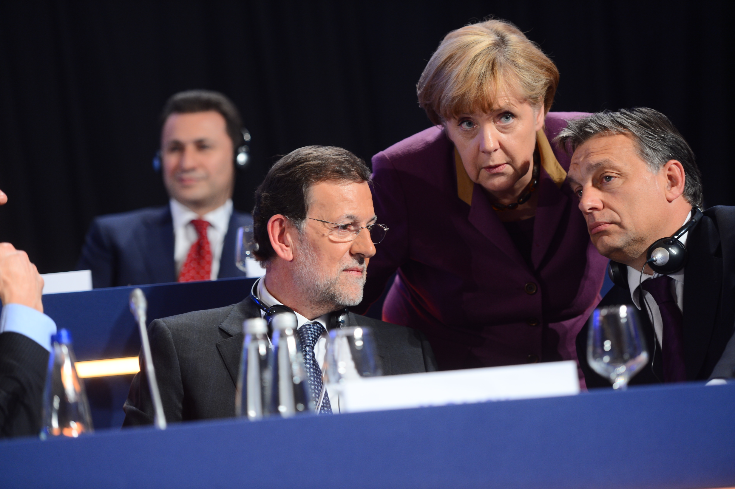 EPP_Congress_3623